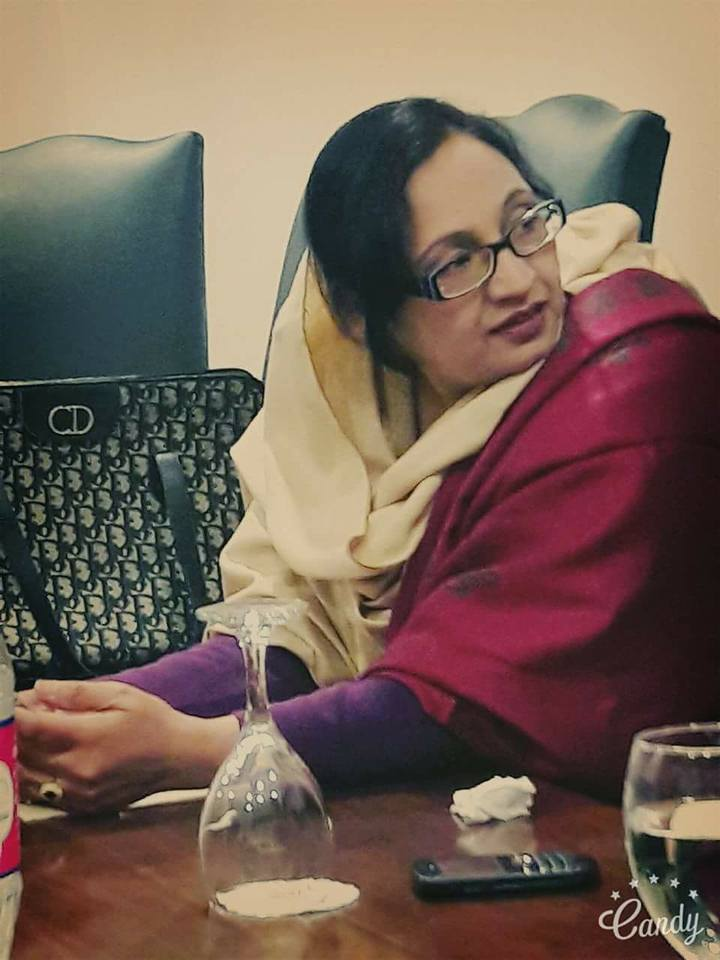 Safia Hayat Punjabi and Urdu language poetess from Faisalabd ,Pakistan